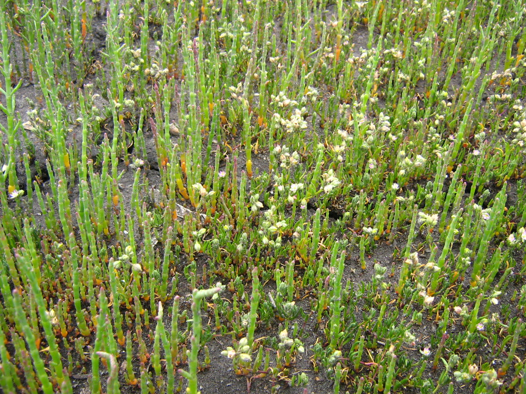 Salt swamp with Salicornia europaea and Spergularia salina. Saline factory area. Poland.